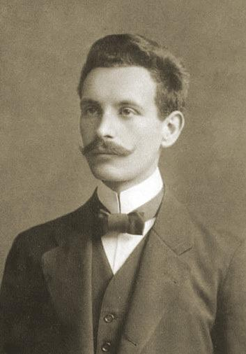 Ivan Krypiakevych Ukr. Ива́н Крипяке́вич (1886-1967) – Ukrainian historian